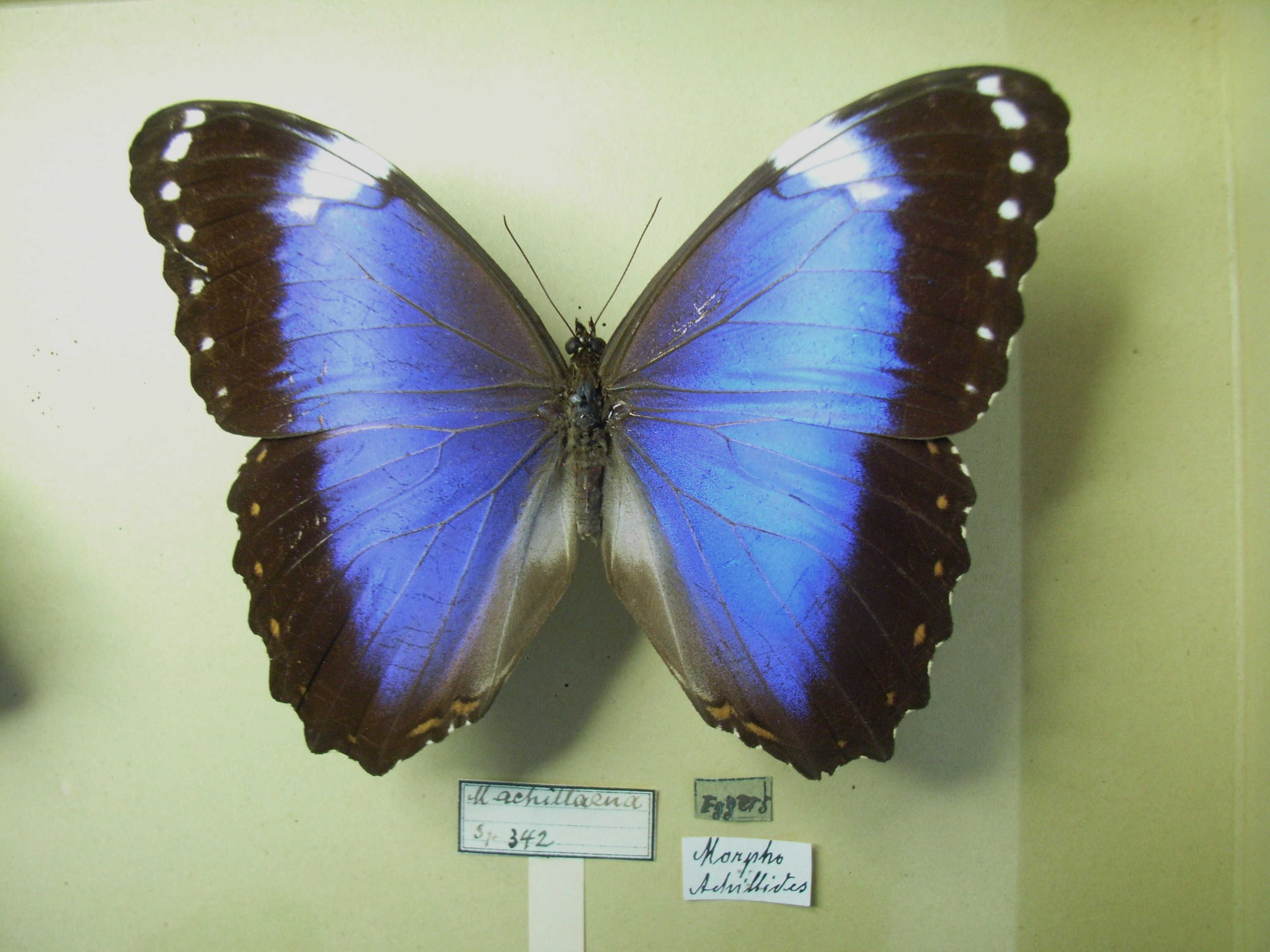 Morpho helenor achilleana Ex Coll. Museum Wiesenbad